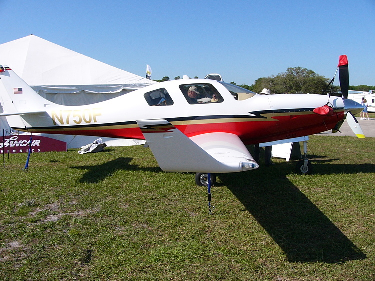 I took this photo of a Lancair Propjet (N750F) at Sun 'n Fun 2004